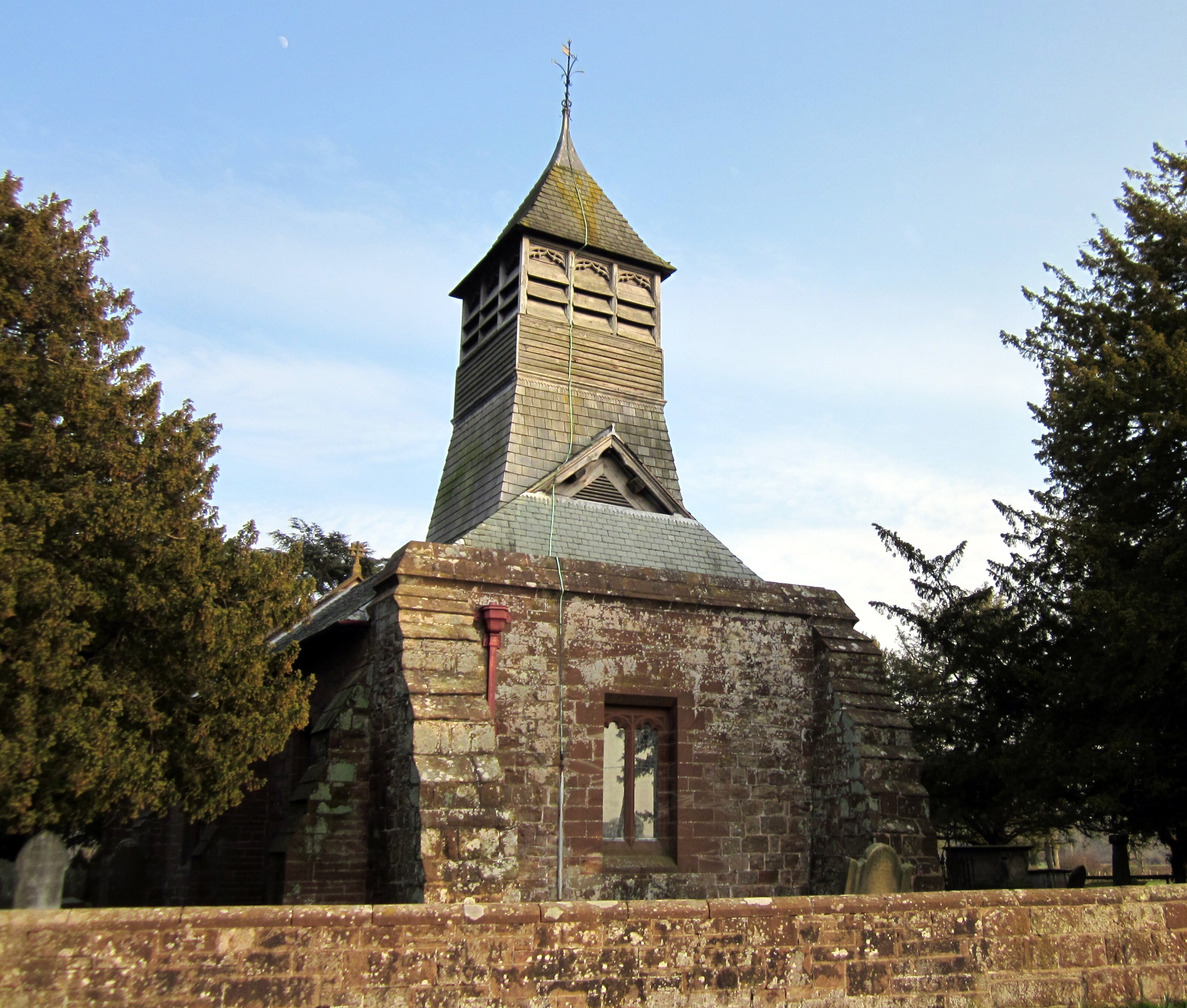 Photograph of St Mary's Church, Bruera